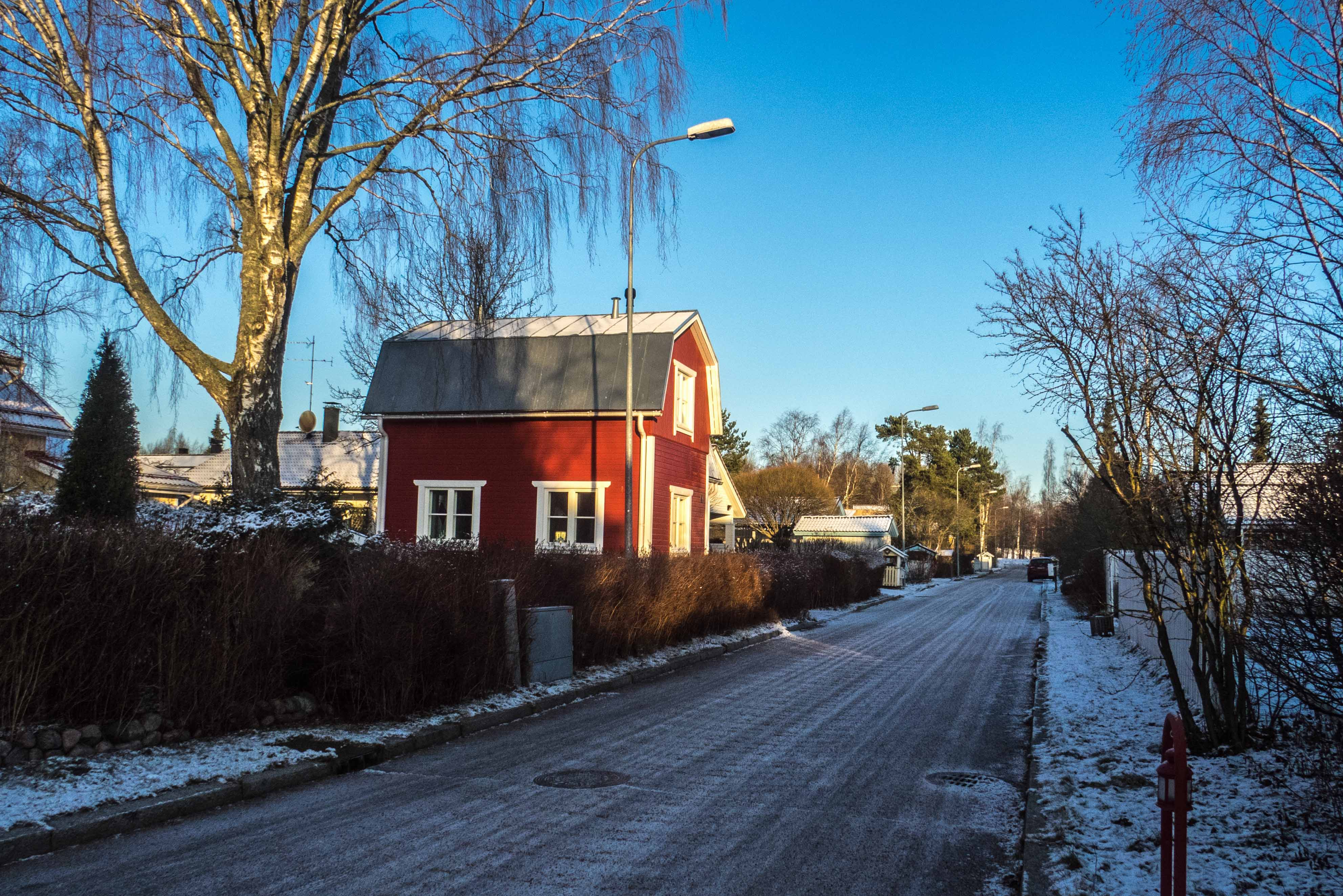 Street in Helsinki